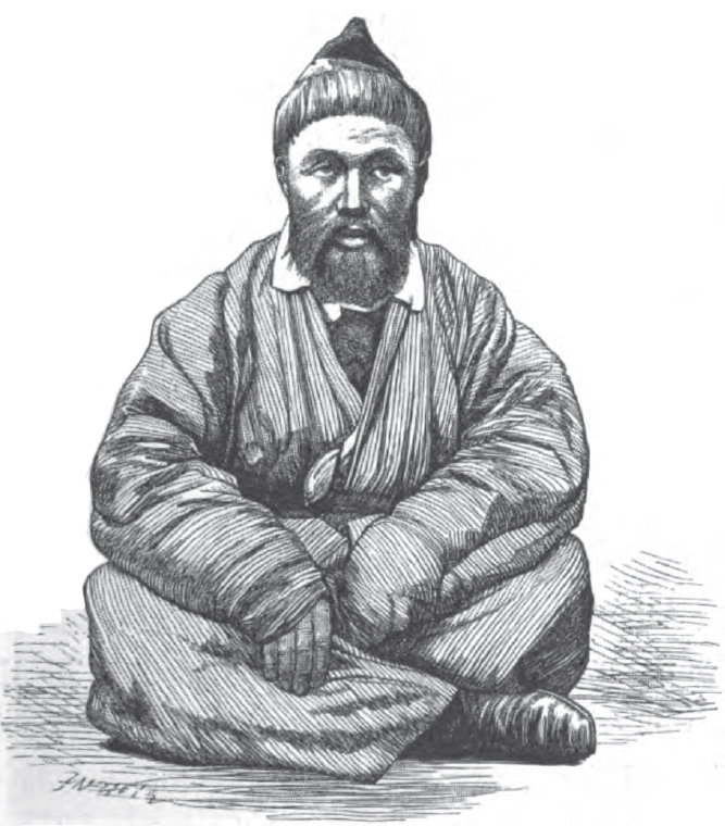 Kyrgyz tribesman, late 19th century